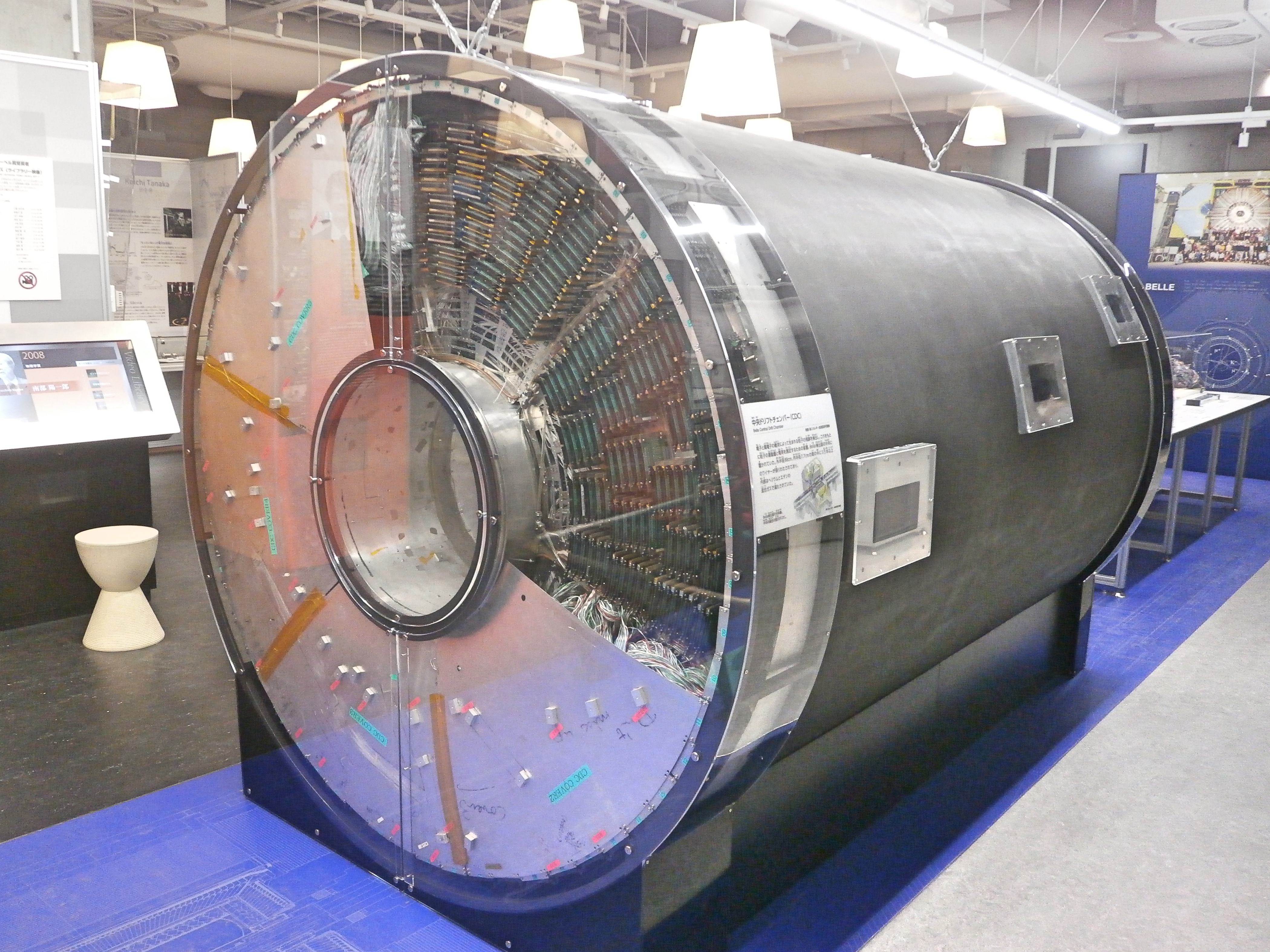 Belle Central Drift Chamber. Donation from KEK. Exhibit in the National Museum of Nature and Science, Tokyo, Japan.